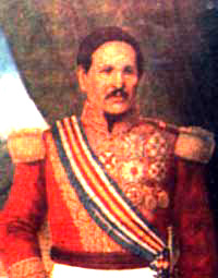 Rafael Carrera y Turcios